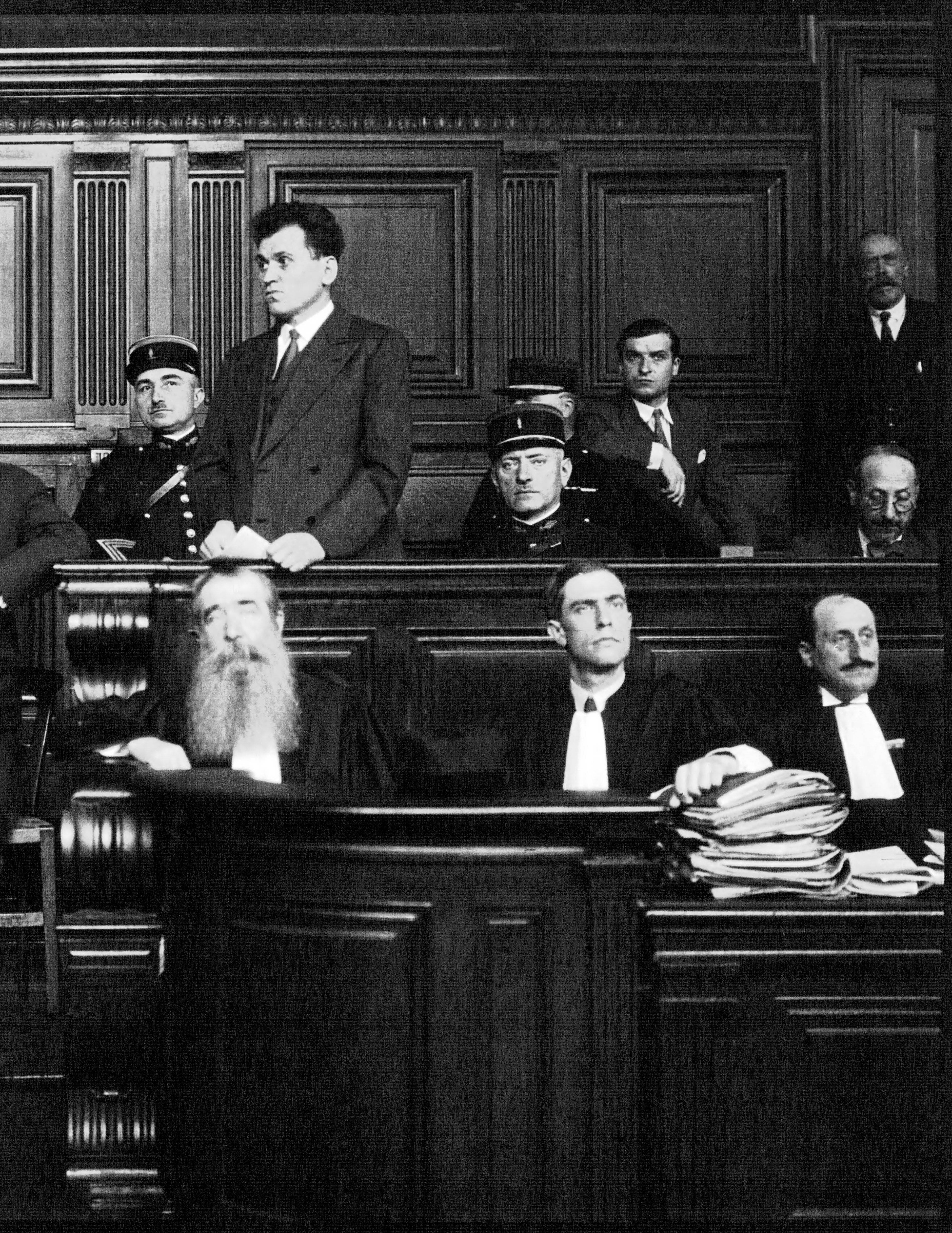 Paul Gorgulov (or "Gorguloff", 1895-1932), assassin of the french president Paul Doumer, in the dock of the cour d'Assises de la Seine in Paris, July 1932.